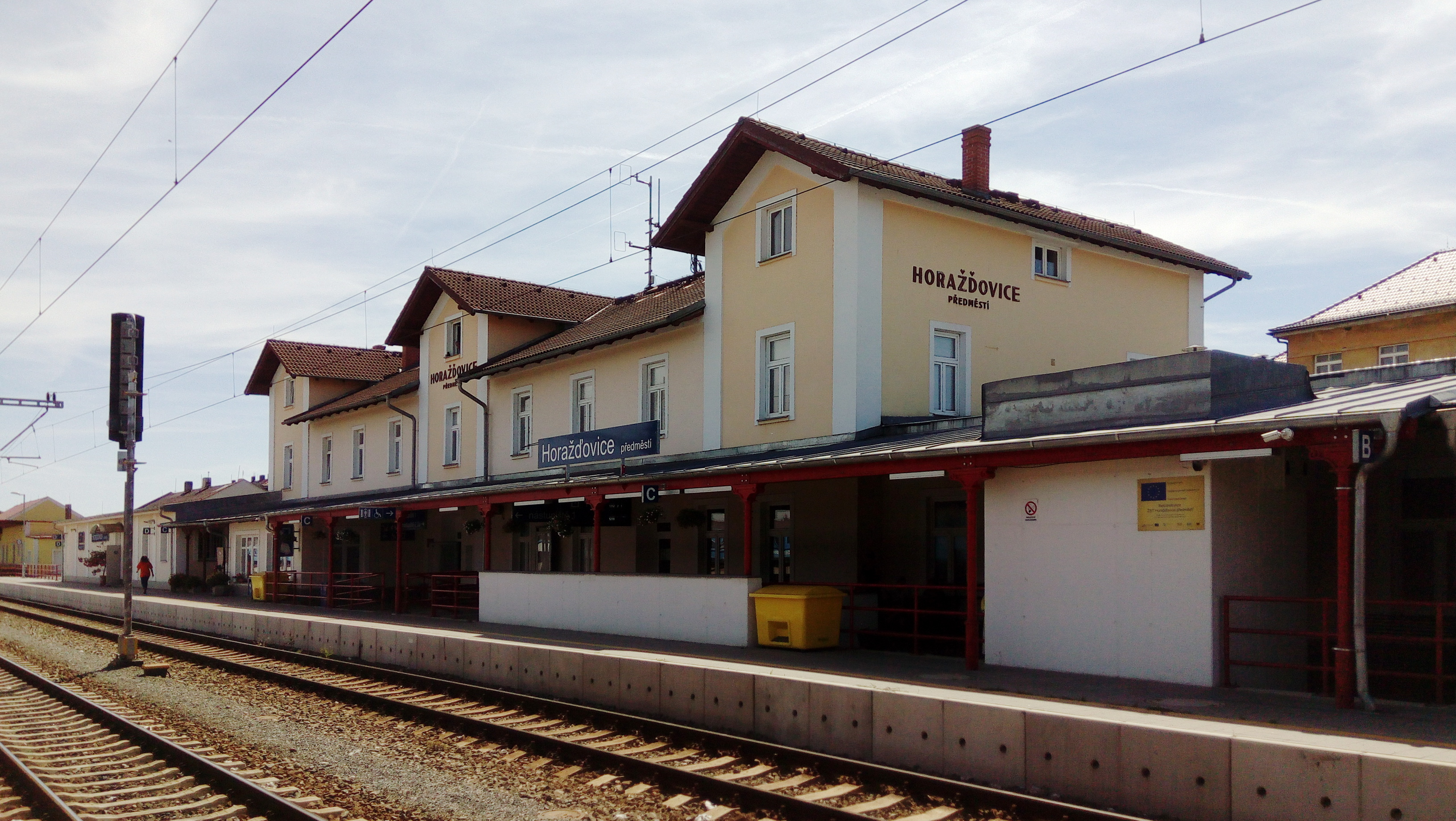 Train station Horažďovice předměstí in the town of Horažďovice, Klatovy District, Plzeň Region, Czechia.